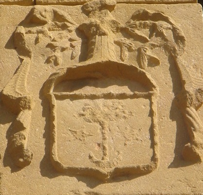 Blason de Pomey, sur la facade d'une maison a Saint-Laurent-d'Oingt